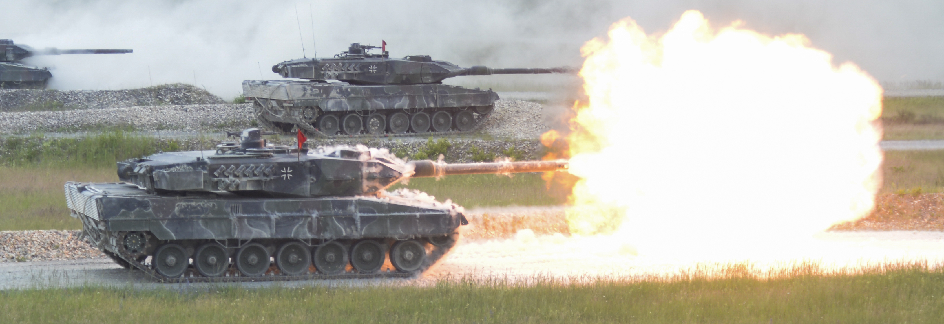 A German Leopard 2A6 from 3rd Panzer Battalion fires its main gun during the shoot-off of Strong Europe Tank Challenge. U.S. Army Europe and the German Army co-host the third Strong Europe Tank Challenge at Grafenwoehr Training Area, June 3 - 8, 2018. The Strong Europe Tank Challenge is an annual training event designed to give participating nations a dynamic, productive and fun environment in which to foster military partnerships, form Soldier-level relationships, and share tactics, techniques and procedures. ( U.S. Army Photo by Kevin S. Abel)